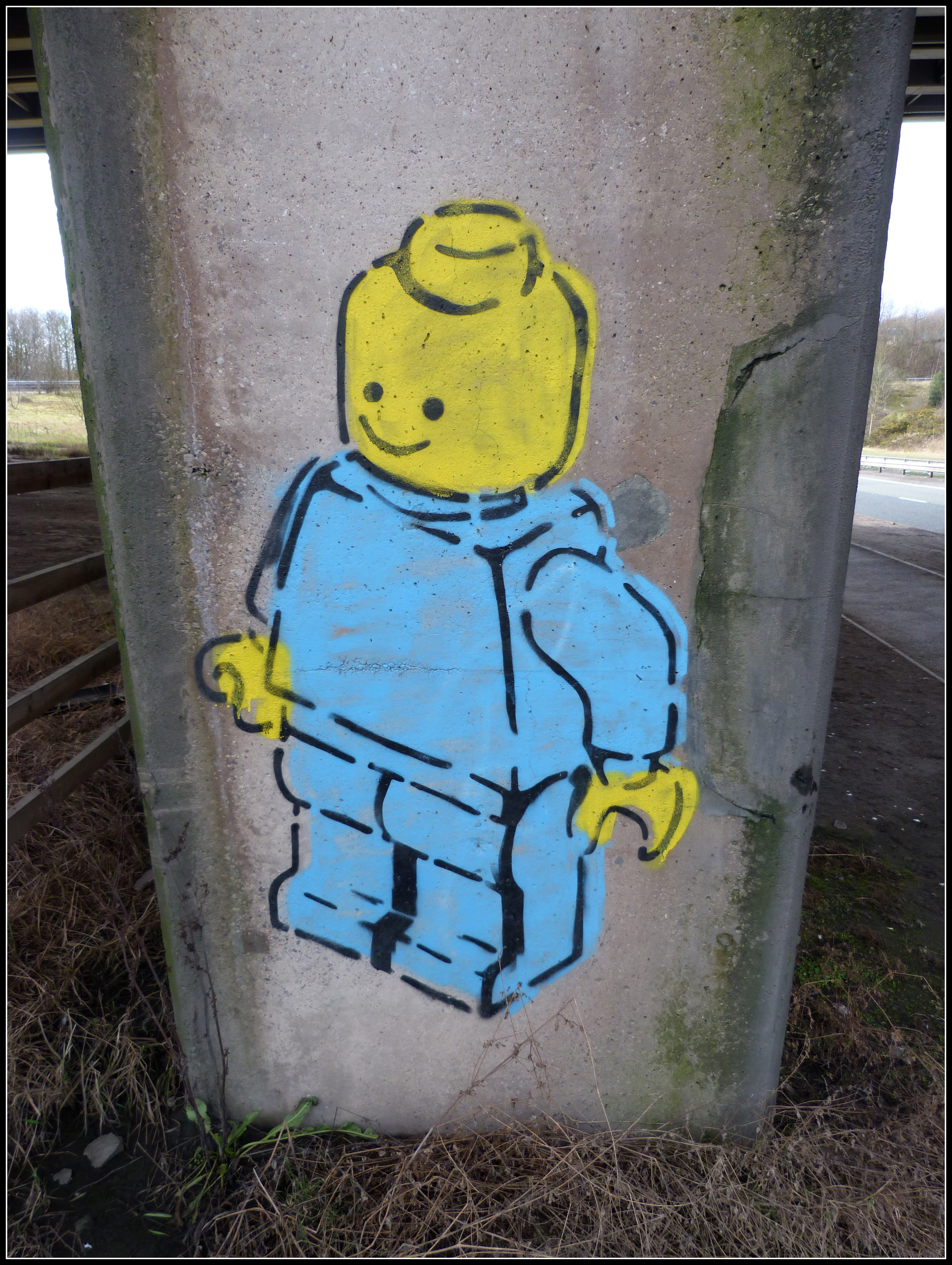 Must of took hours to sketch this on the bridge support on the M60 flyover on the East Lancs at Swinton.